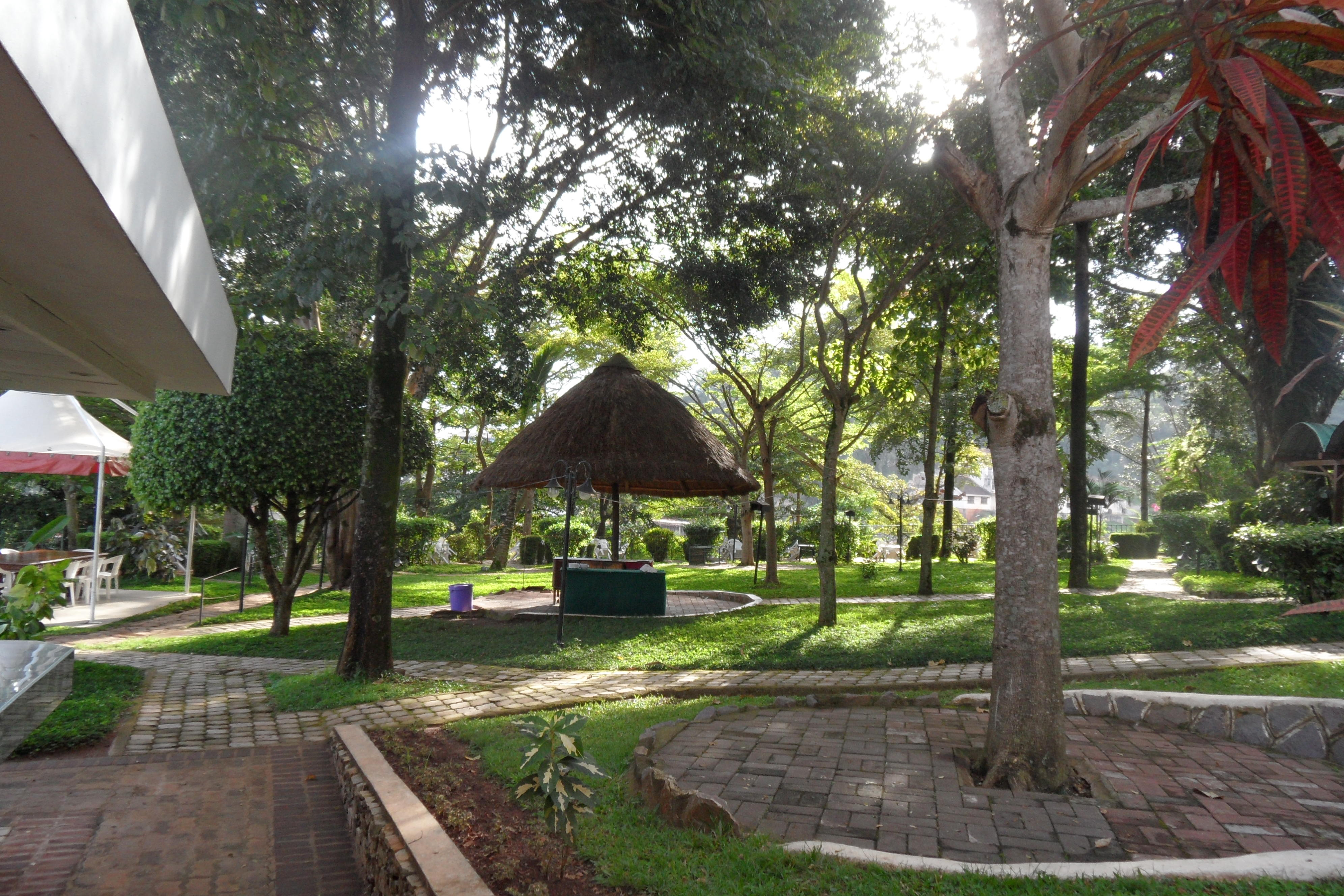 Hotel International 2000 Gardens